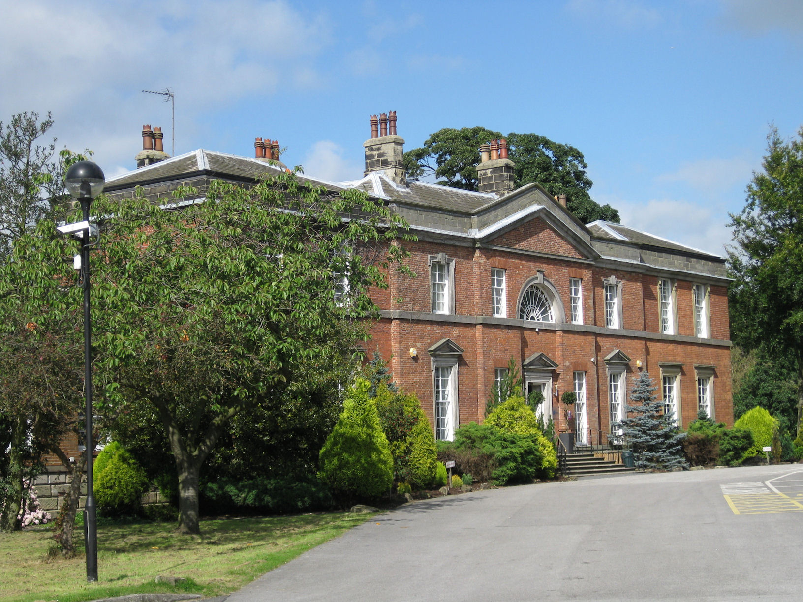 Headquarters of the Rugby Football League, Red Hall, Leeds LS17 8NB Georgian building from 1650